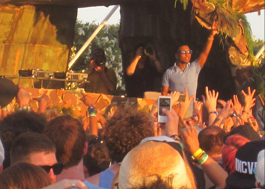 Lil B performs at Coachella, 2011